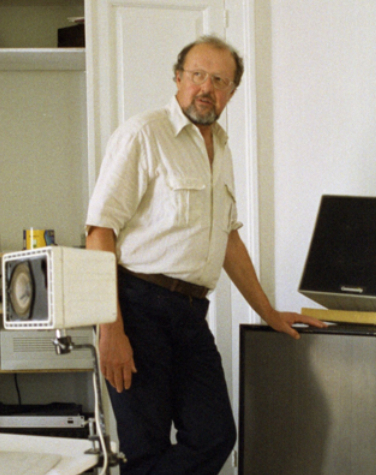 Max Neuhaus, Artist Portrait